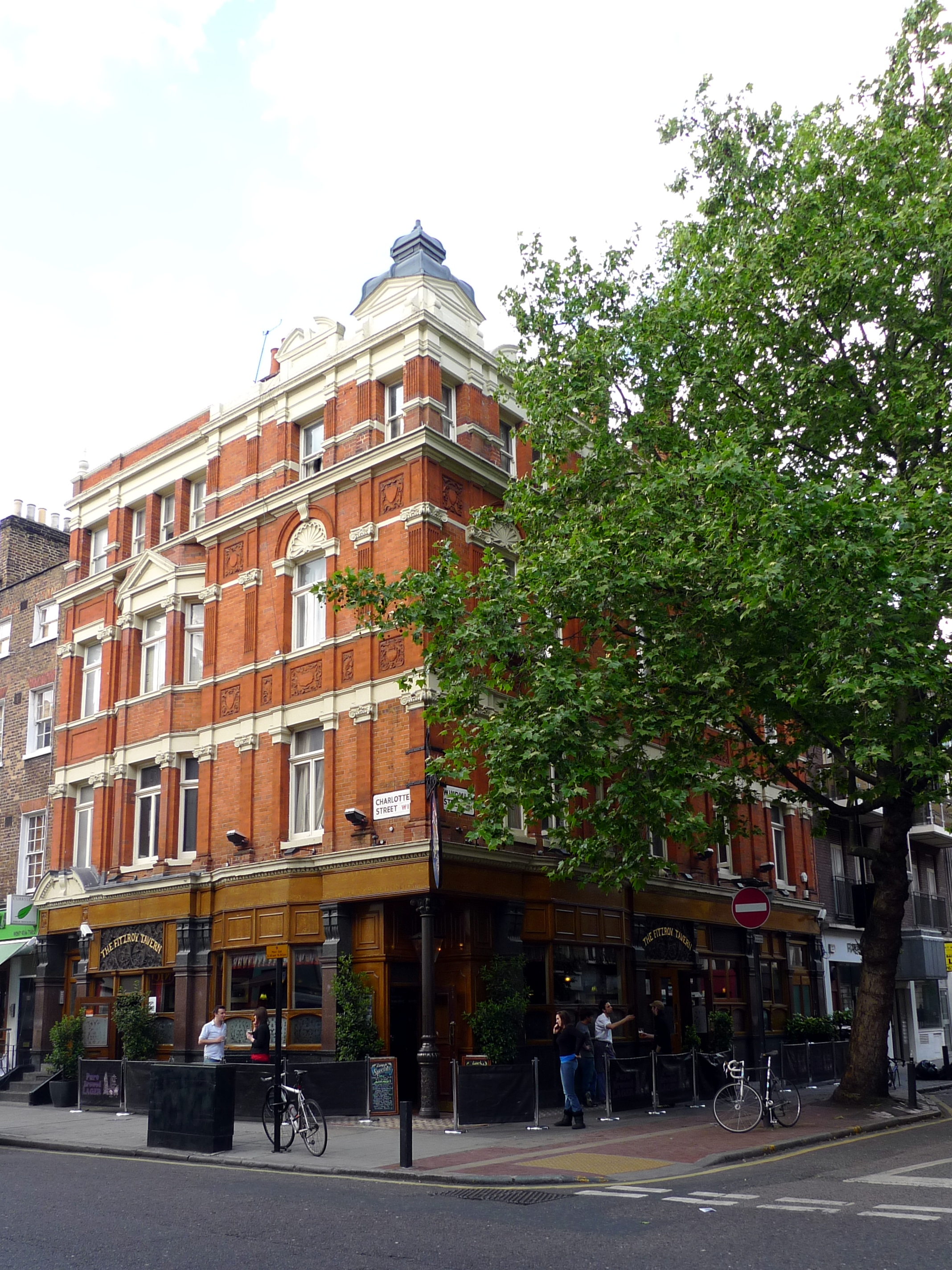 It's the pub where the literati and bohemians gathered back in the early-20th century. Now it's a Sam Smith's. Address: 16 Charlotte Street. Owner: Samuel Smith's. Links: Randomness Guide to London Fancyapint Beer in the Evening Wikipedia